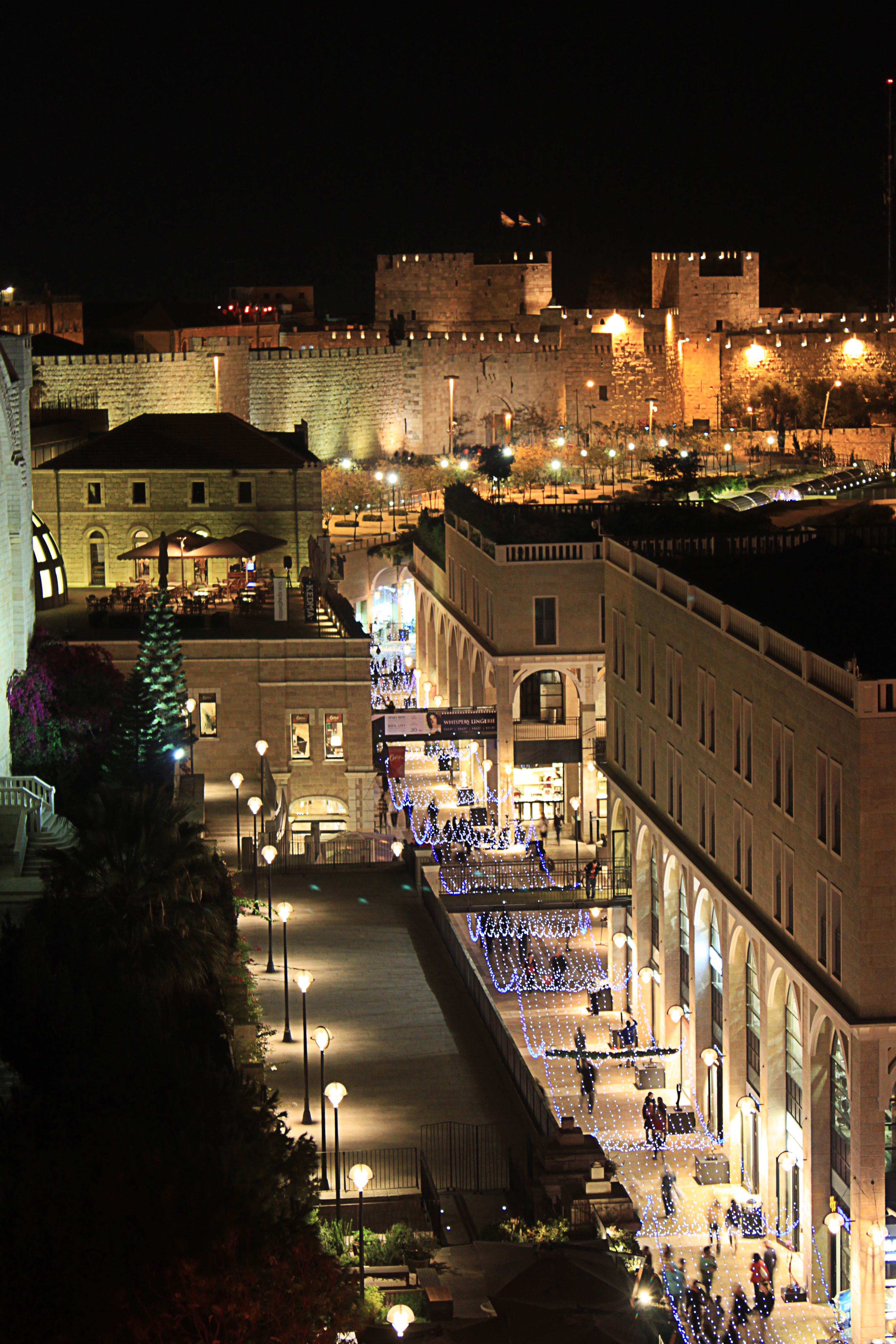 Old city walls and Mamilla ave. at night - as seen from "Rooftop" restaurant on the top of Mamilla Hotel - Jerusalem, Israel